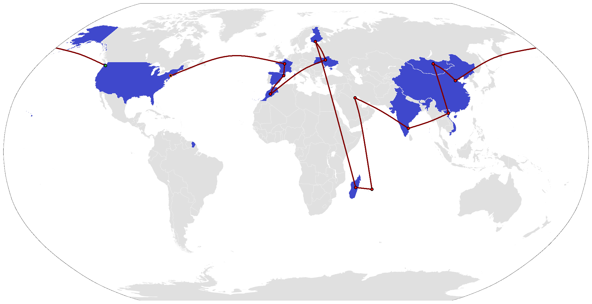 The Route Map of The Amazing Race 10, updated with black dot leg stops